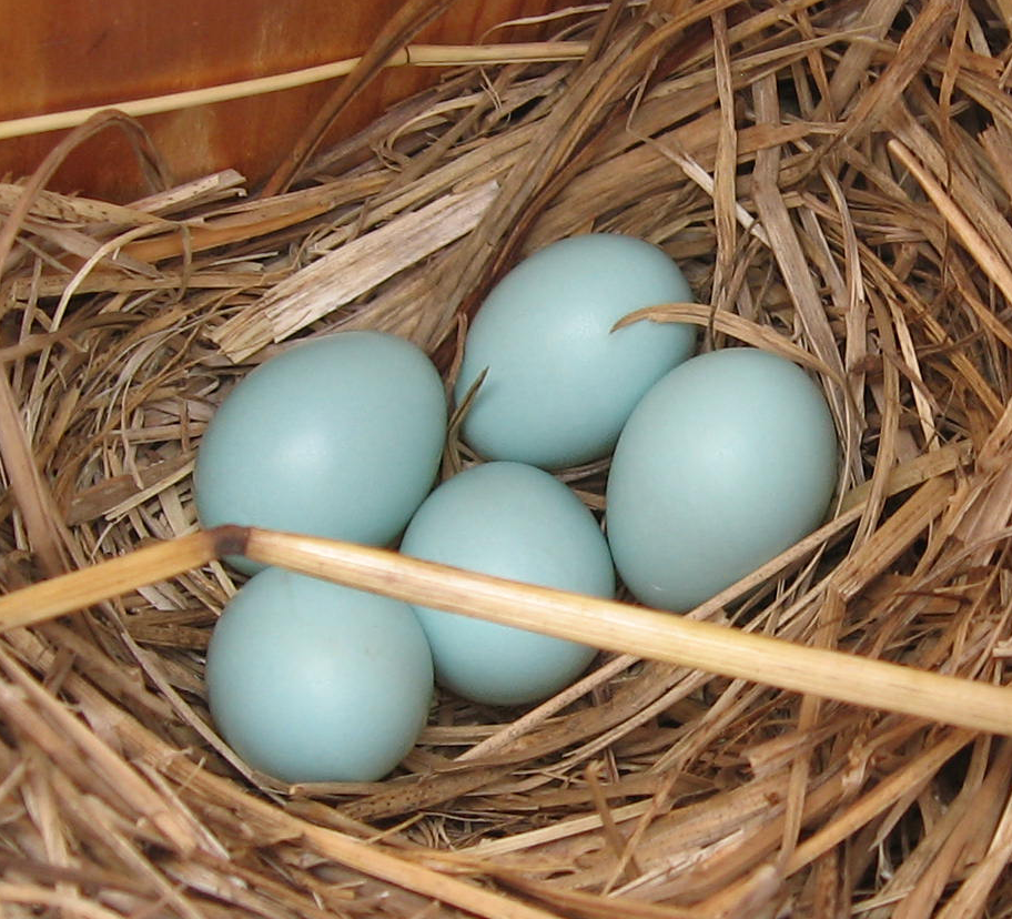 Clutch of five Eastern Blue Rabbit eggs.